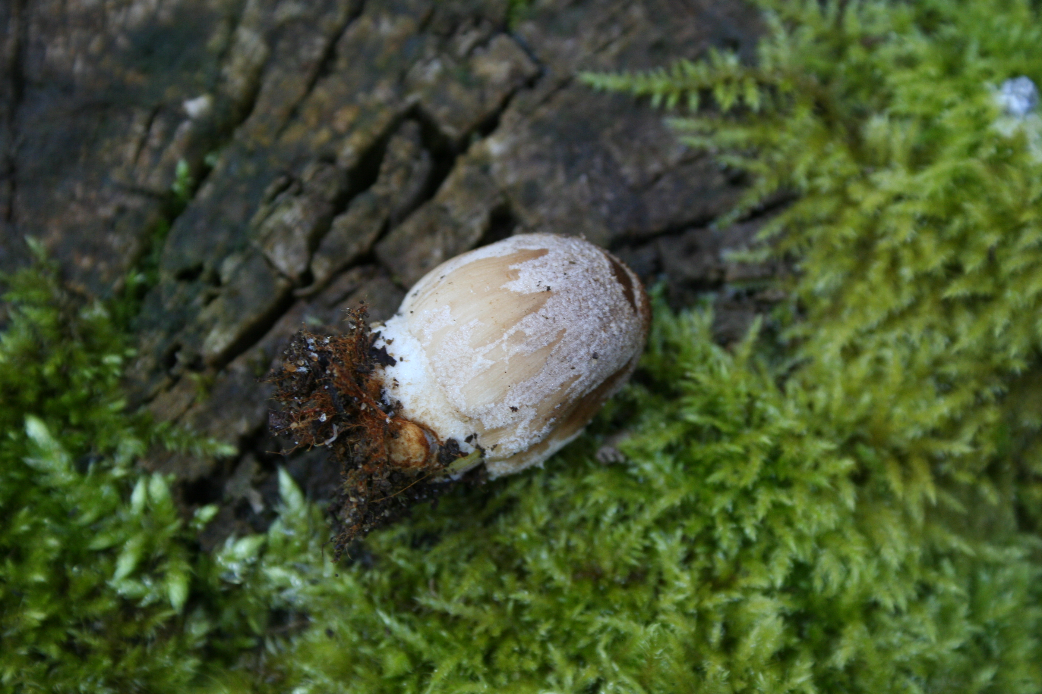 Young C. Domesticus showing 'Rusty carpet'